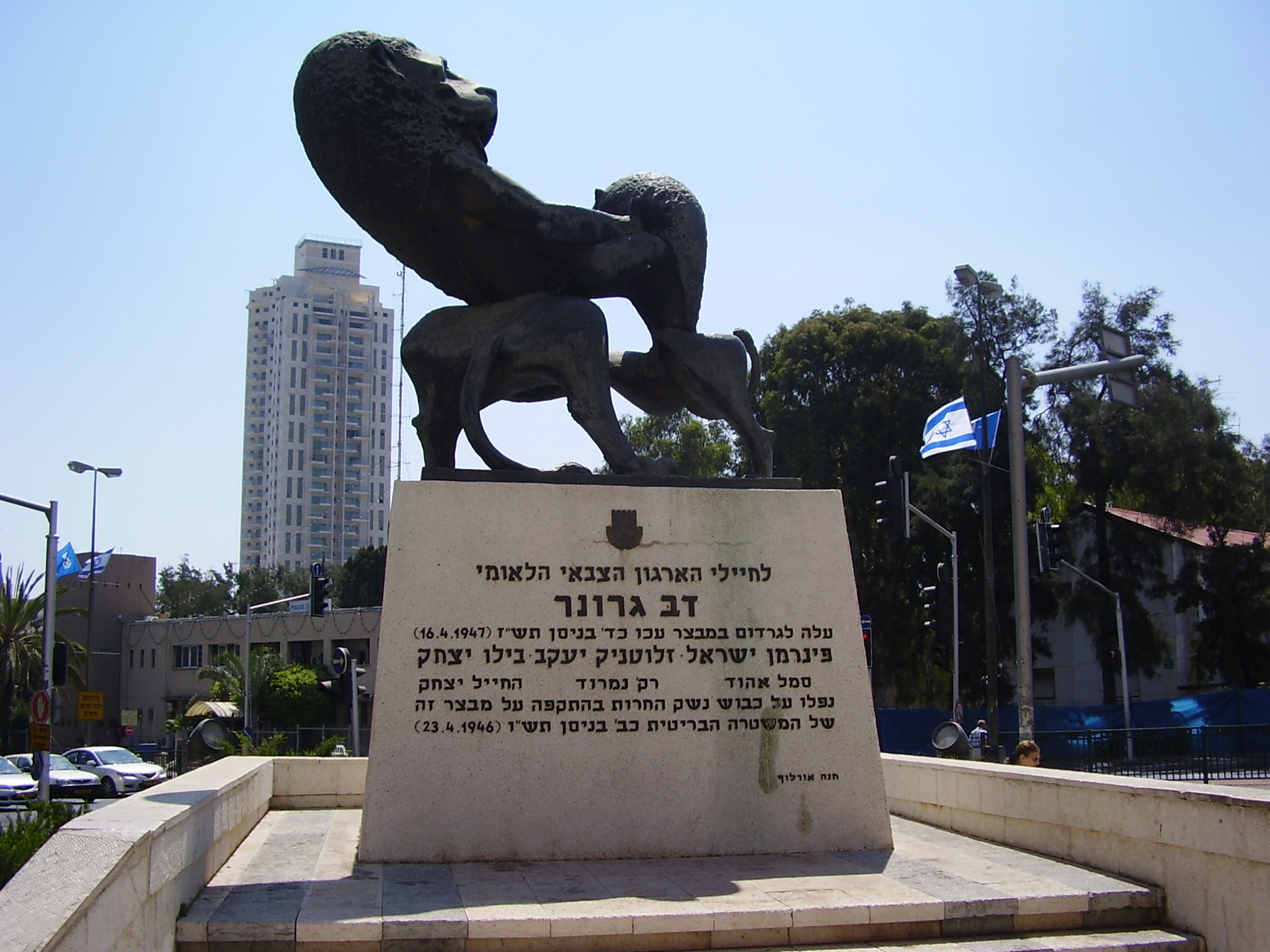 Etzel (Irgun) memorial in Ramat Gan, Israel